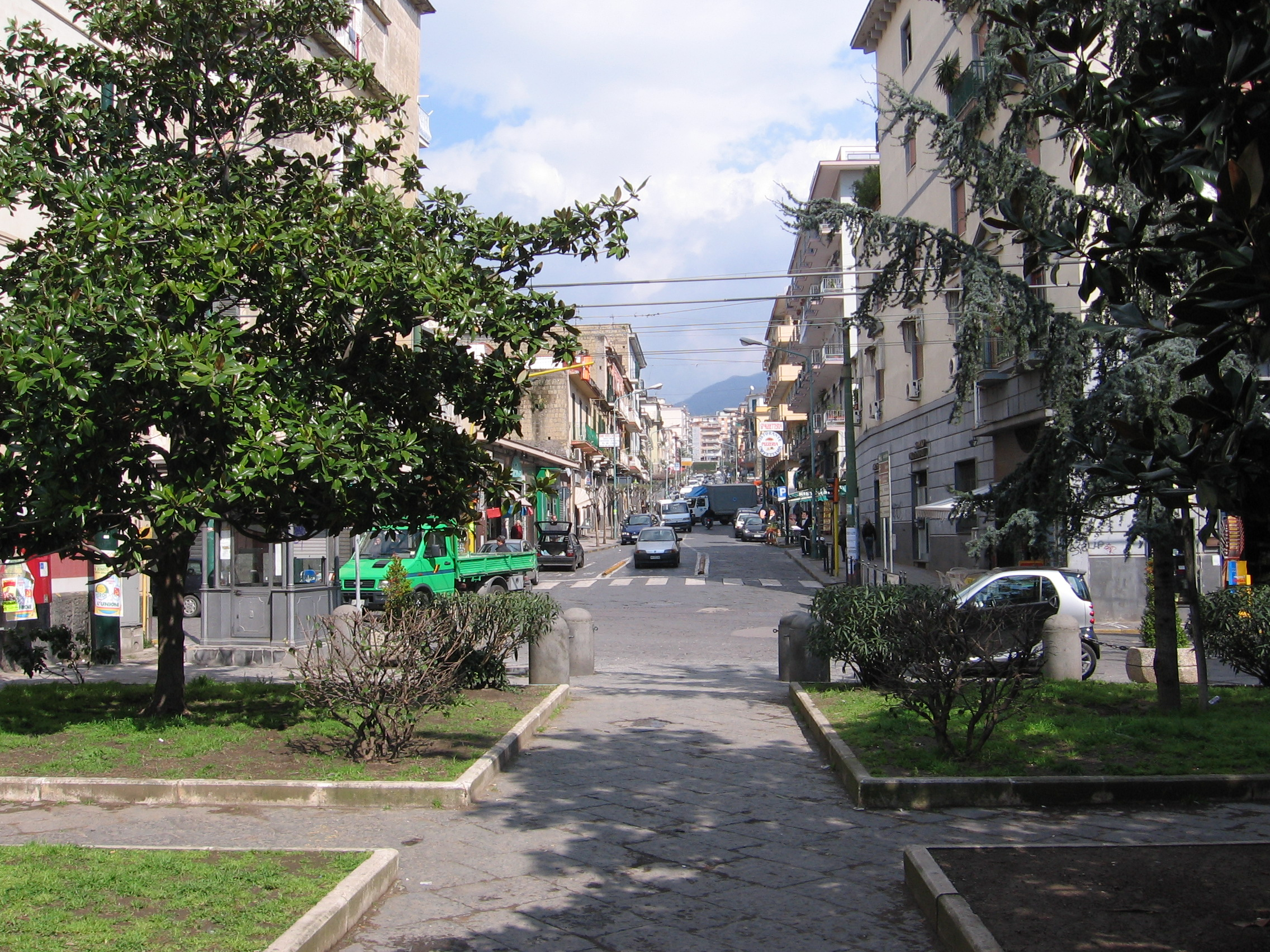 Main street in Ercolano in the afternoon.